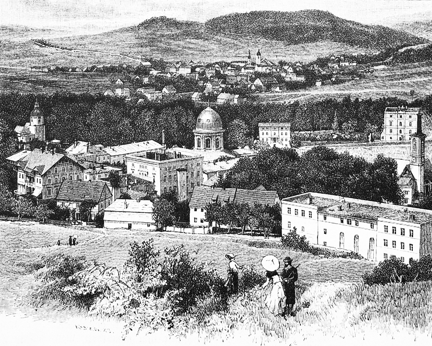 caption: "Bad Landeck in Schlesien."